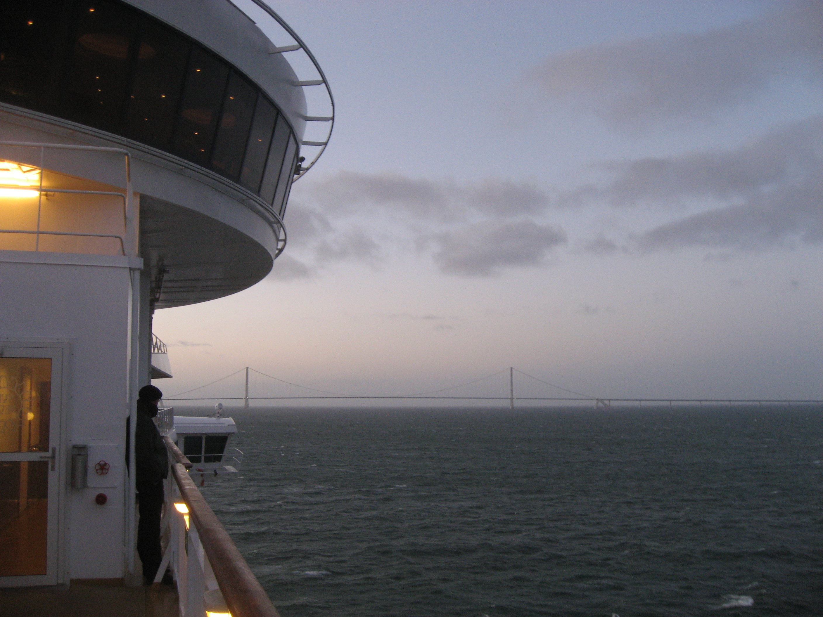 MS Color Magic from Kiel to Oslo. Storebælt Bridge in the background.